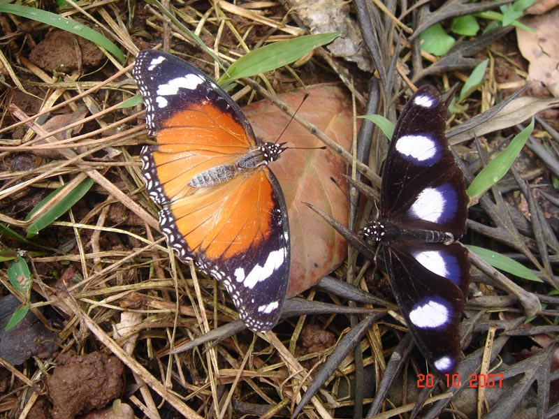 Danaid Eggfly Hypolimnas misippus Family Nymphalidae, Lepidoptera (butterflies) Own work Image taken at Chikmagalur,Karnataka,India on October 24th 2007 male seen trying to court female Mistiqueinque 18:13, 6 December 2007 (UTC)